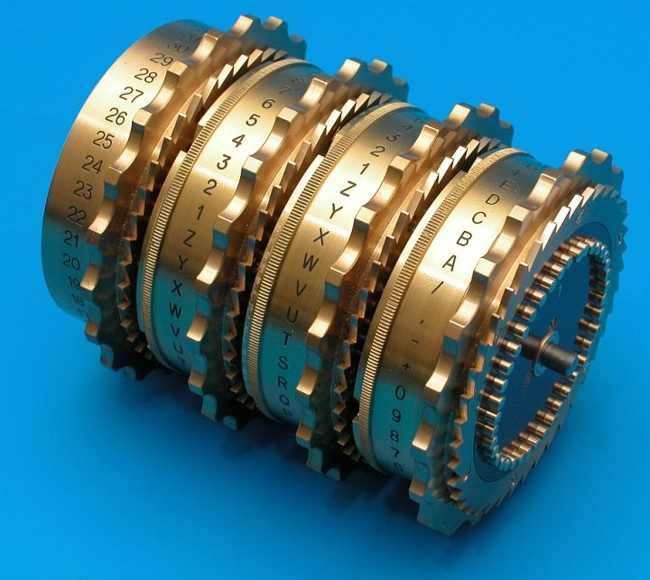 Tatjana van Vark's [1] Enigma-inspired rotor machine, constructed in 2002. The rotors of this machine contain 40 contacts, compared to the original Enigma's 26. Source: [2] It was agreed that this photograph could be used under the terms of the GFDL after an email exchange with User:Matt Crypto.